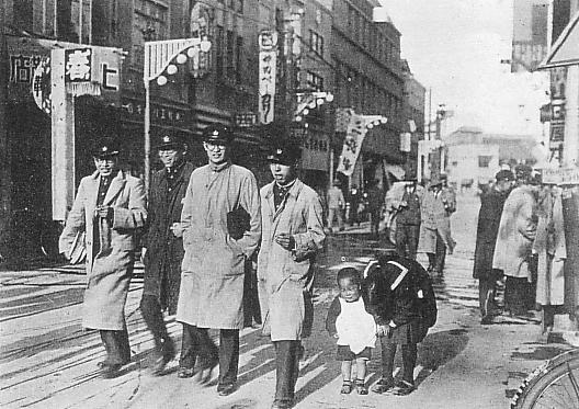 University students at Kanda bookstore district circa 1930